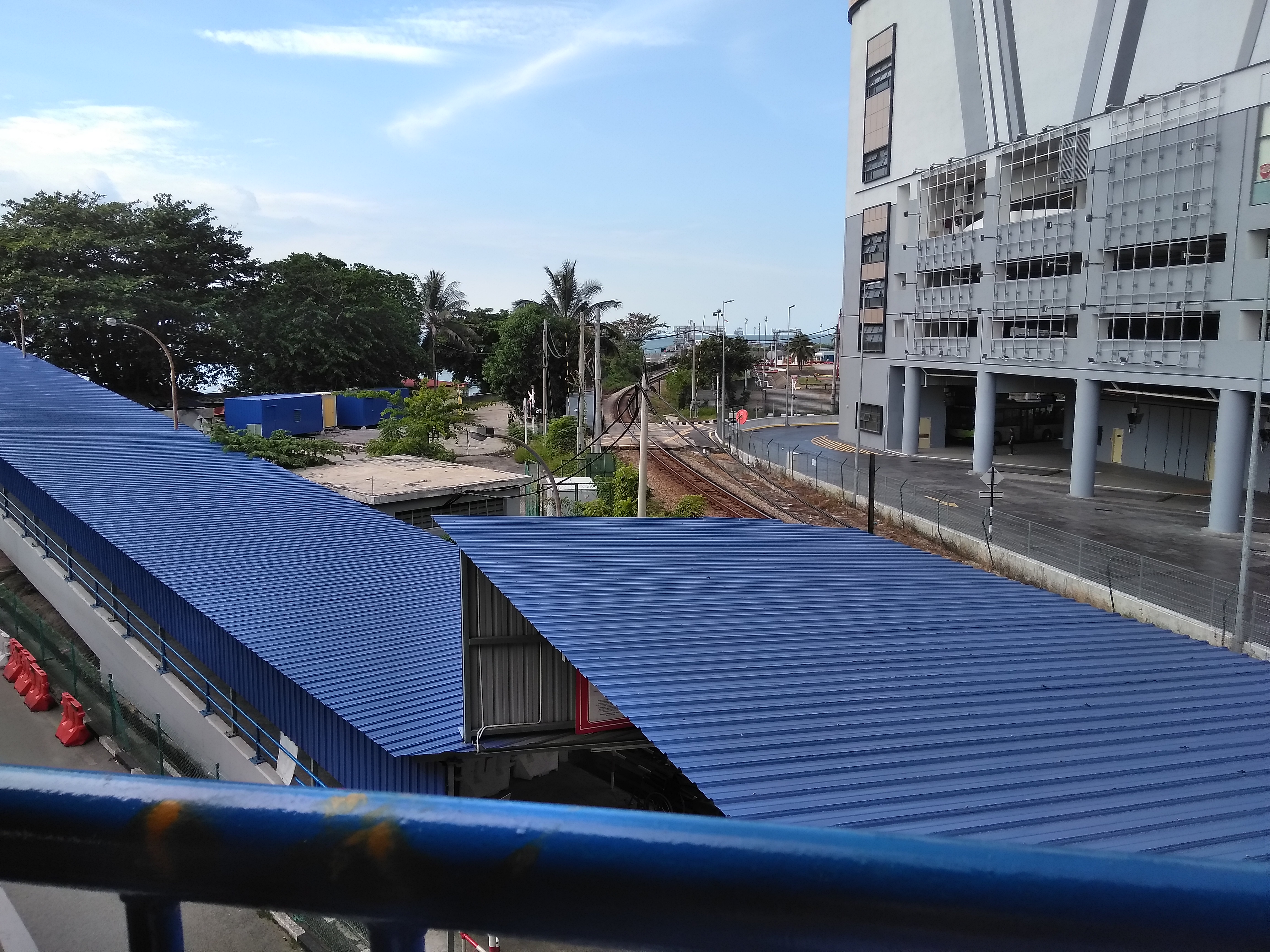 Penang Sentral Outview